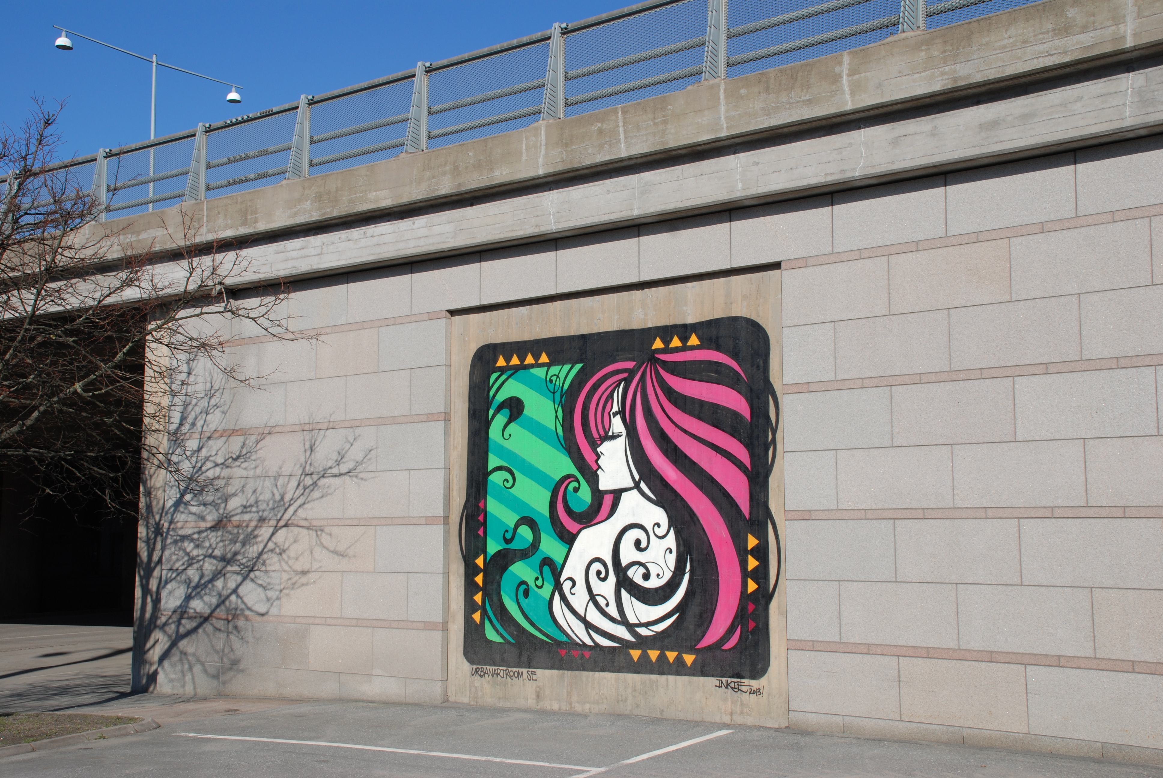 Street art painting by the British street art painter Inkie in 2013 on a wall to the motorway E6 at Örgrytevägen/Sofierogatan in the city part Bö in Göteborg, Sweden.